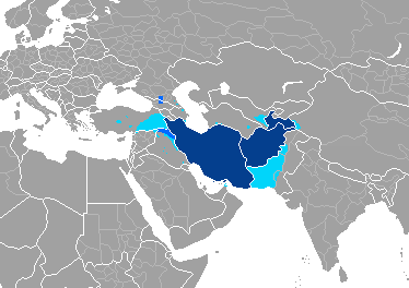 Map showing countries and autonomous subdivisions where a Iranian language has official status and/or is spoken by a majority.